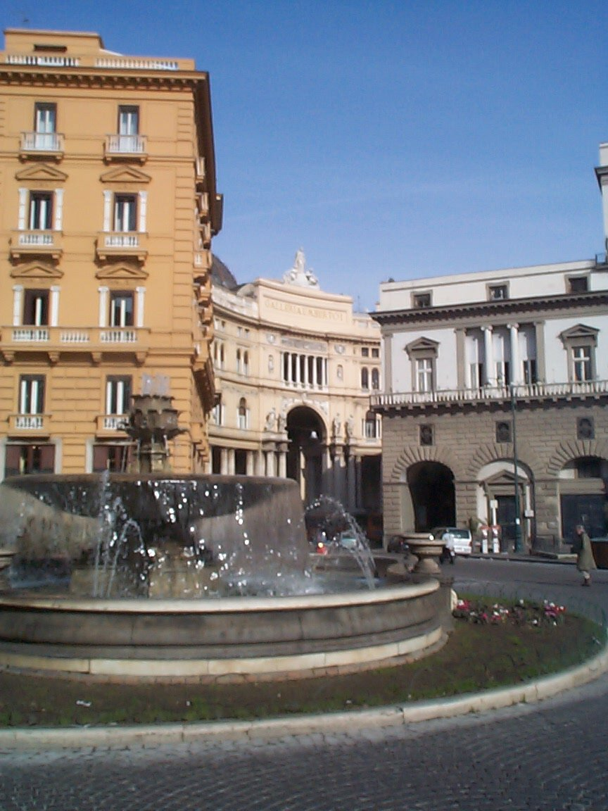 Teatro San Carlo (right) today. The building in front is the entrance of the Umberto I vaulted gallery